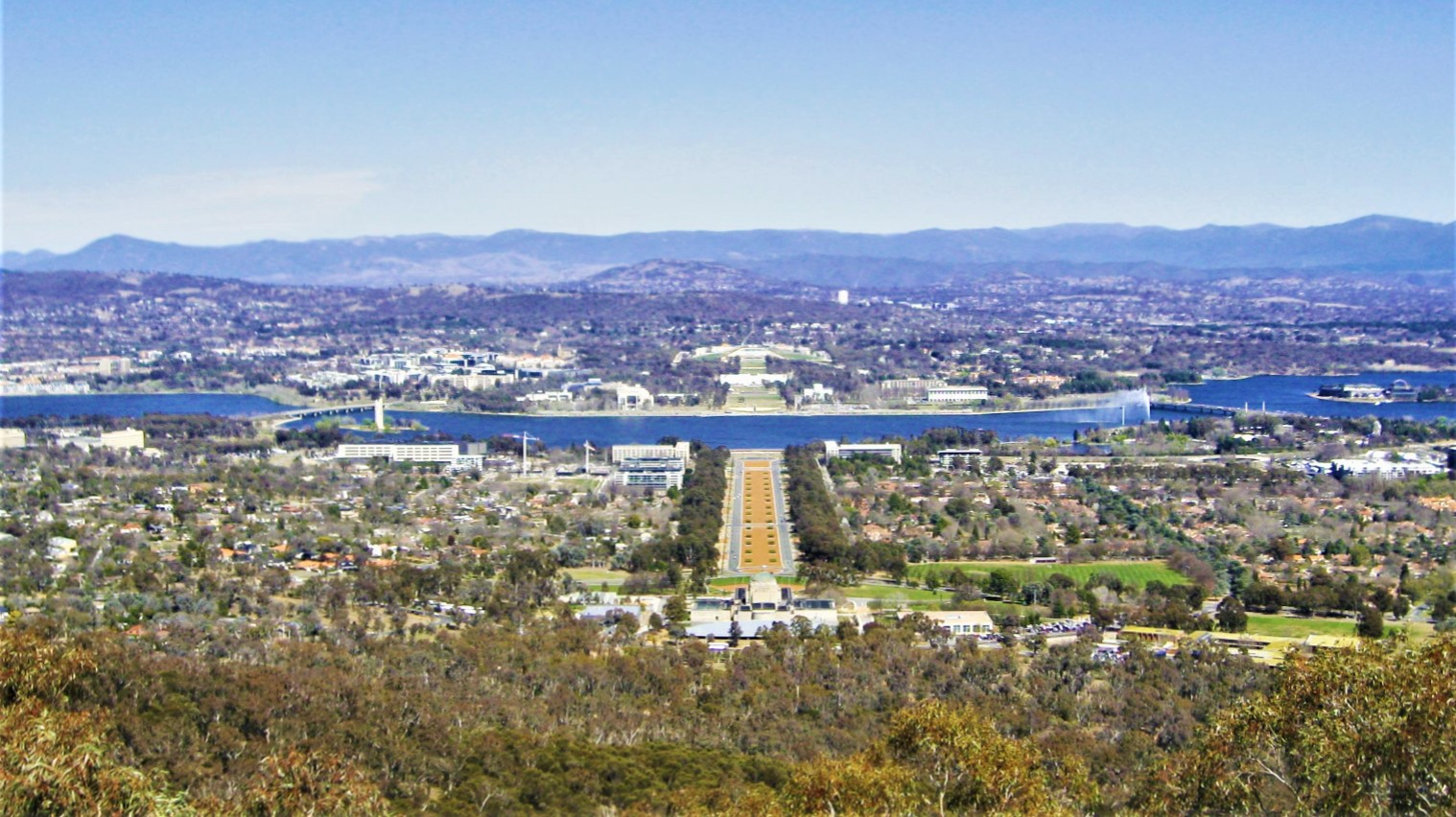 A view of Canberra, August 2017.